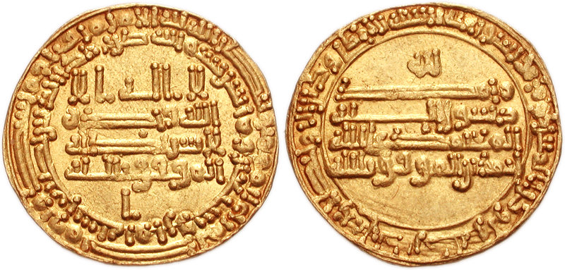 ISLAMIC, 'Abbasid Caliphate. Abu’l Fadl Ja’far al Muqtadir. 908-932. AV Dinar (20mm, 2.92 g). San'a mint. Dated AH 298 (AD 910/11). First part of the Kalima; mint and date in inner legend / Continuation of Kalima. Album 245. EF.